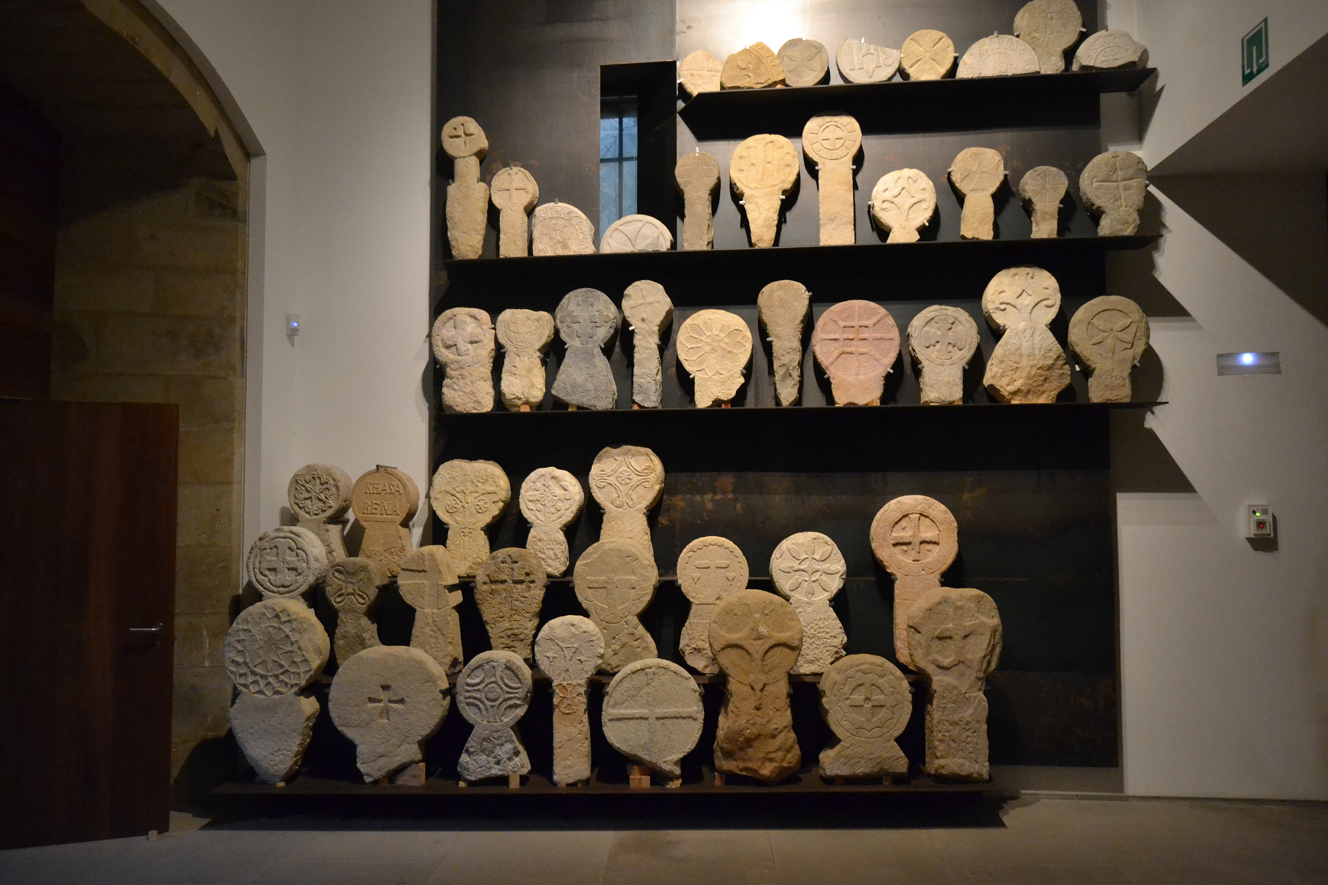 Basque disk-shaped funerary steles or hilarris, San Telmo Museum, Donostia-San Sebastián, Gipuzkoa, Basque Country.